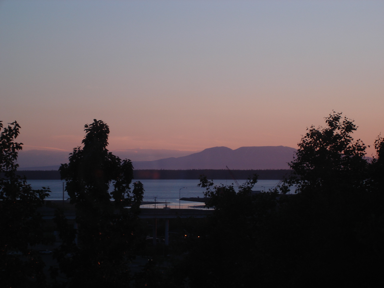 Cook Inlet Sunset and Ship Creek Delta in 2007